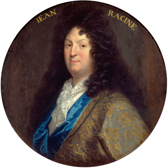 Jean-Baptiste Racine